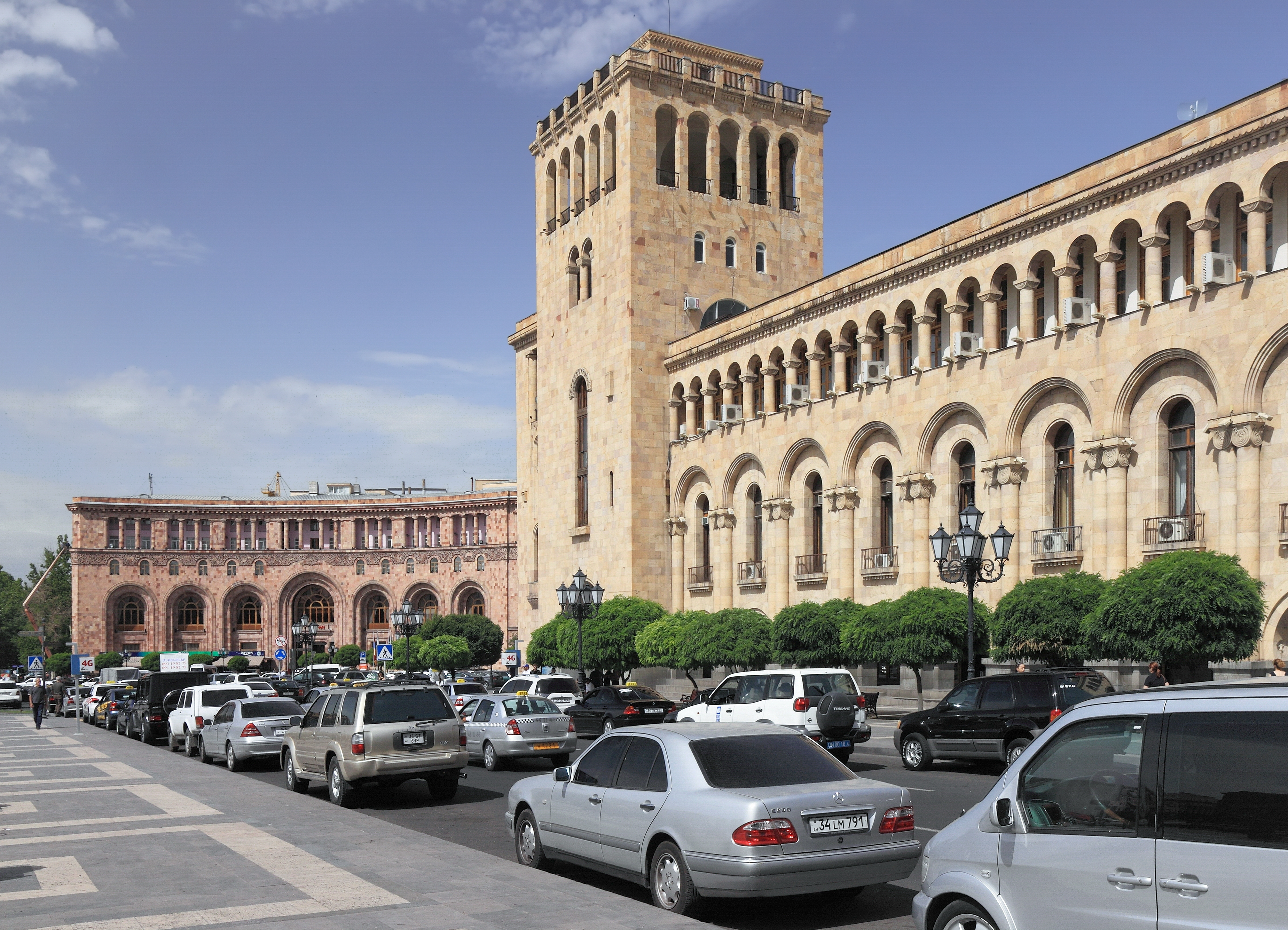 Building of Ministry of Foreign Affairs of Armenia. Yerevan, Armenia.